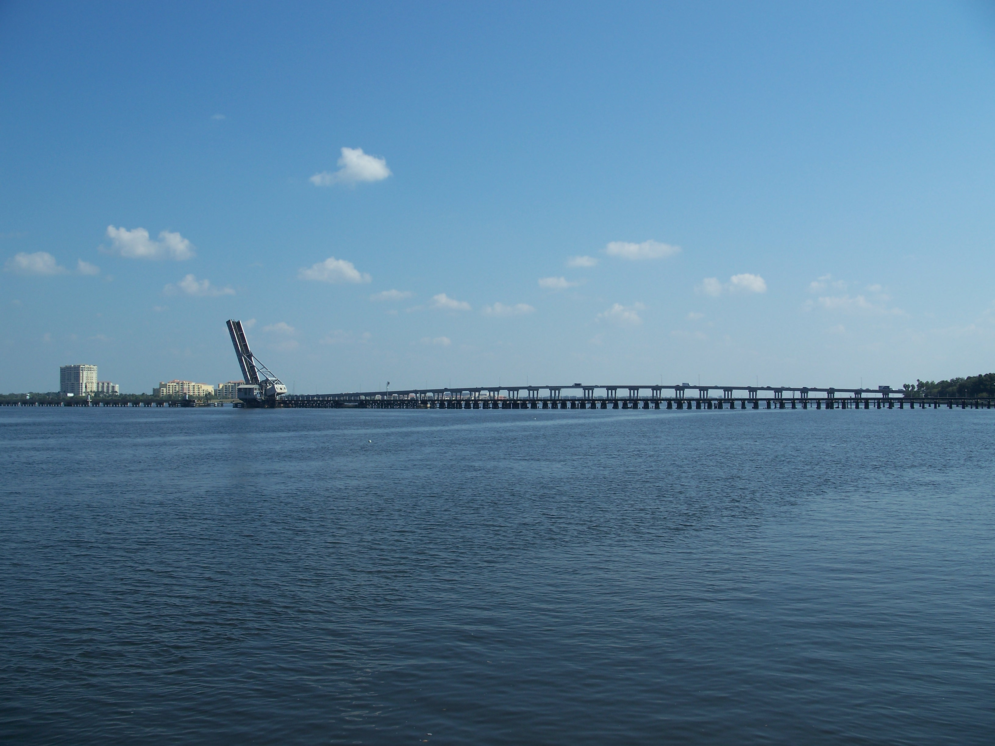 Bradenton, Florida: Hernando DeSoto bridge, which carries US 301 over the Manatee River